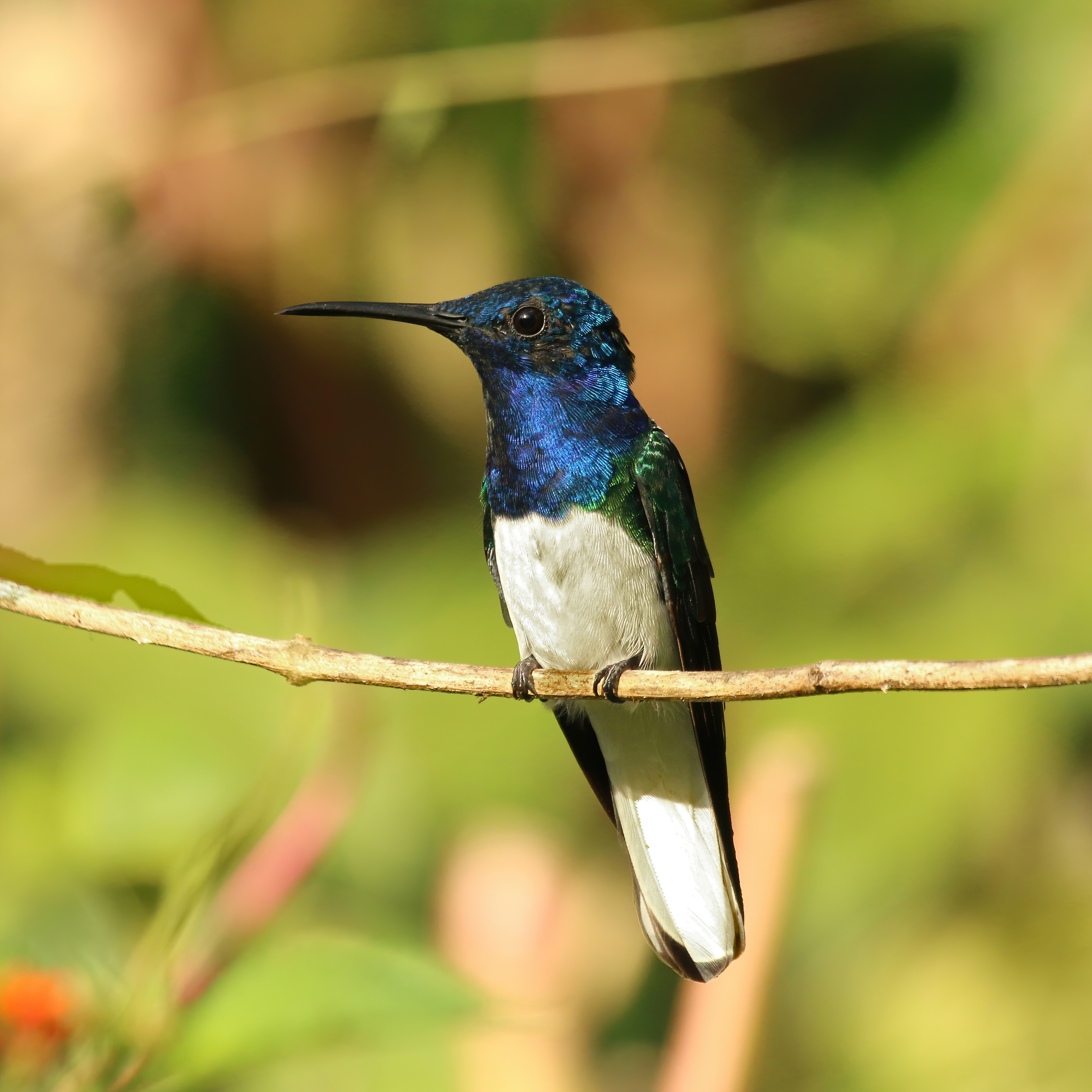 White-necked jacobin (Florisuga mellivora flabellifera), Trinidad